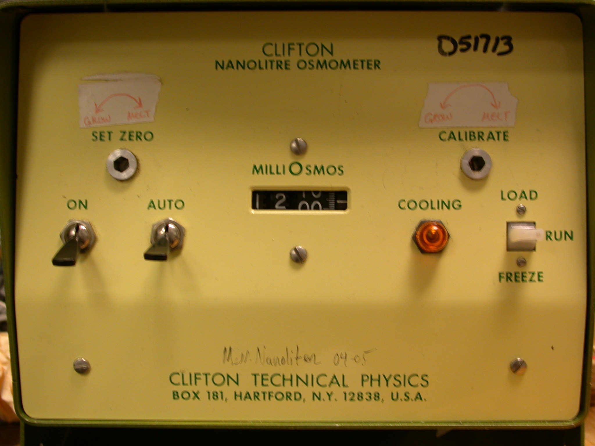 A closeup of the Clifton nanoliter osmometer controller showing the controls, and the Osmolality readout.